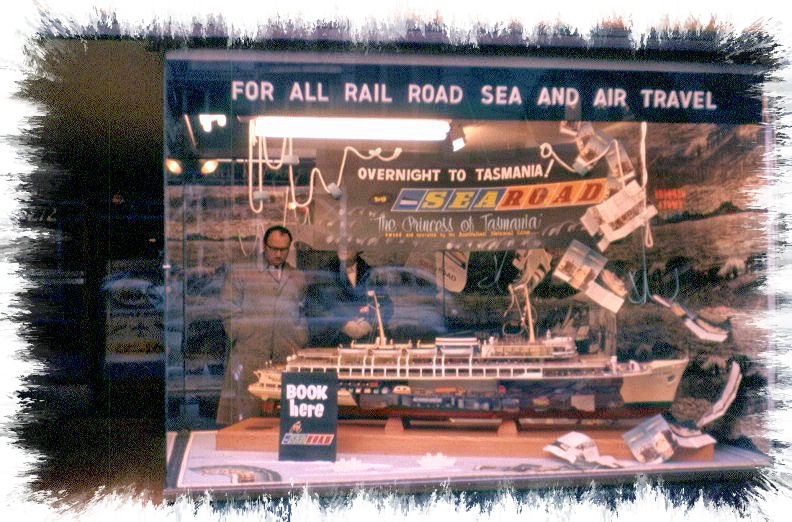 Promo for the MS Princess of Tasmania. Collin Street, Melbourne, 1959/60